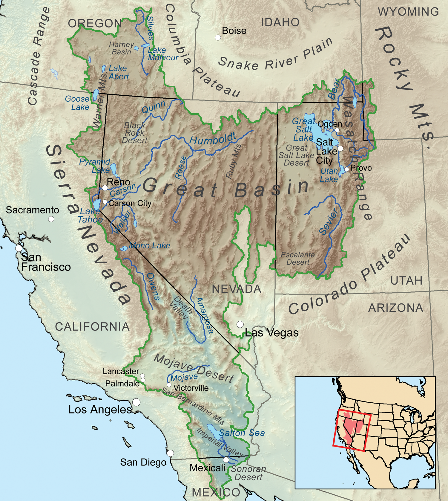 Map showing the Great Basin drainage basin as defined hydrologically.